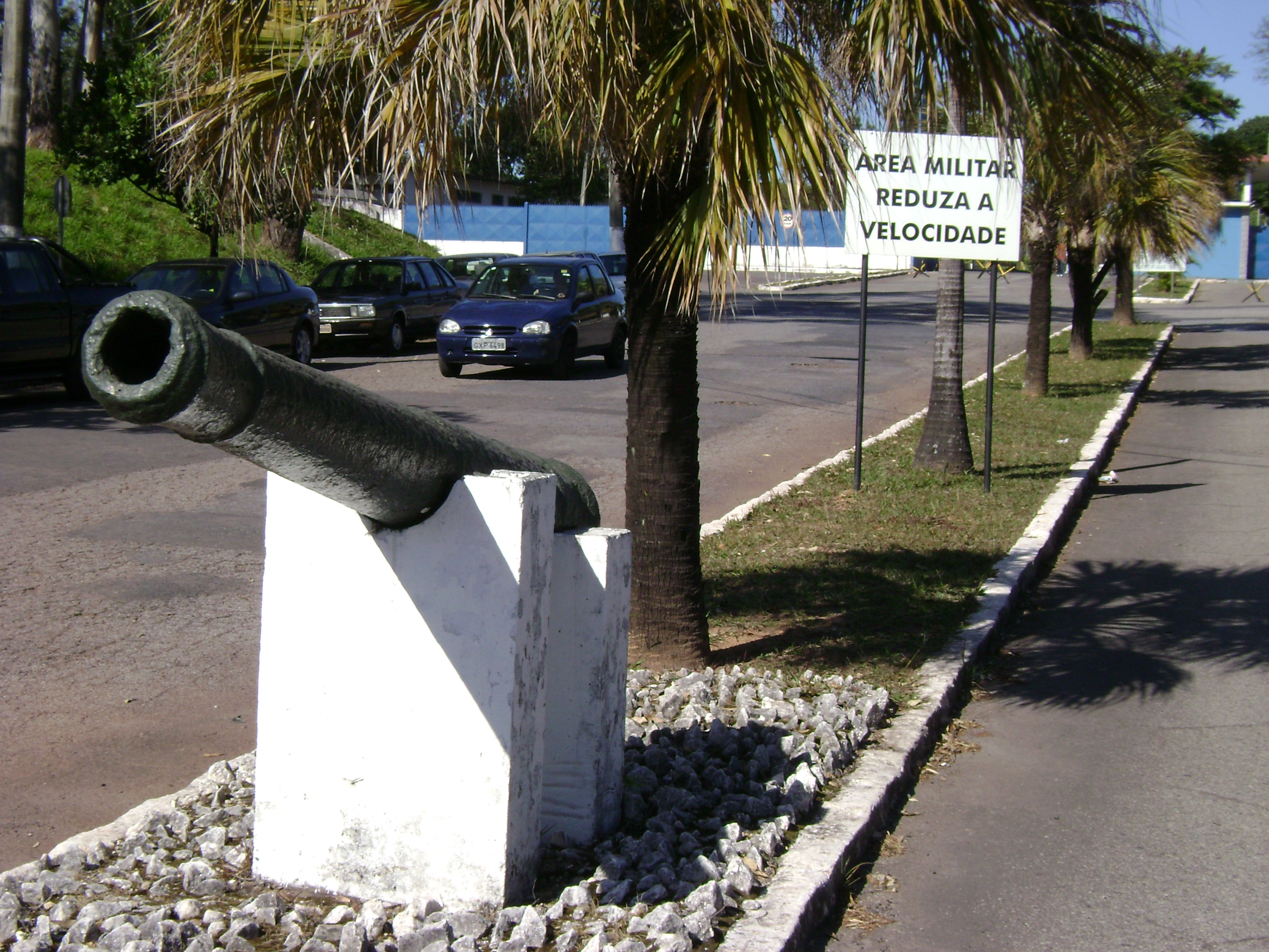 Entrance of CPOR / CMBH, in Belo Horizonte, Brazil.